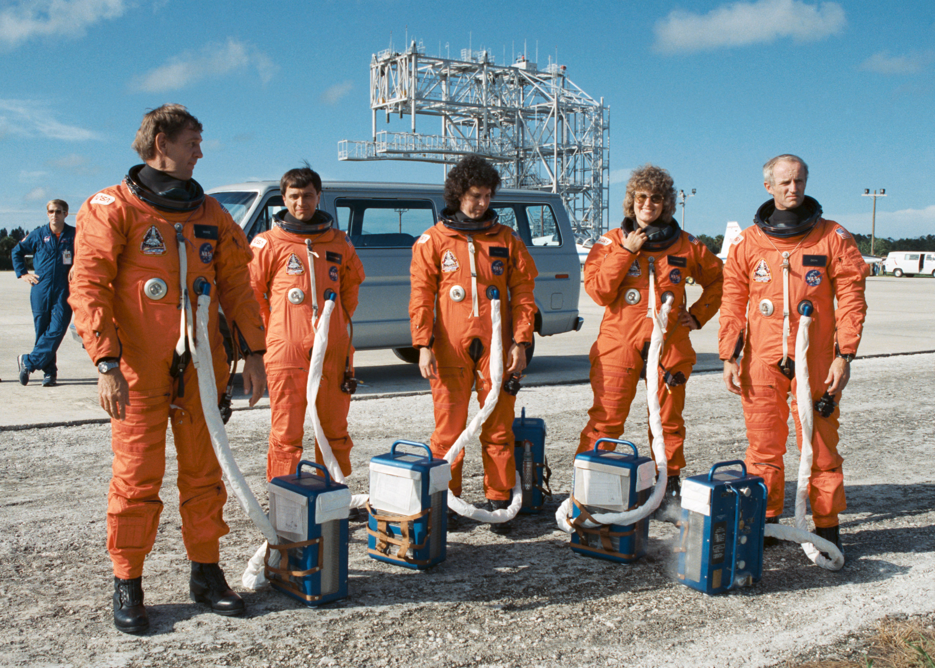 STS-34 crewmembers, wearing launch and entry suits (LESs), prepare for emergency egress training at KSC's shuttle landing facility (SLF) prior to terminal countdown demonstration test (TCDT) activities. The crewmembers stand next to their personal egress air packs (PEAPs) before training begins. Crewmembers are (left to right) Pilot Michael J. McCulley, Mission Specialist (MS) Franklin R. Chang-Diaz, MS Ellen S. Baker, MS Shannon W. Lucid, and Commander Donald E. Williams. In the background are a transportation van and the SLF mate demate facility. View provided by KSC with alternate number KSC-89PC-868.